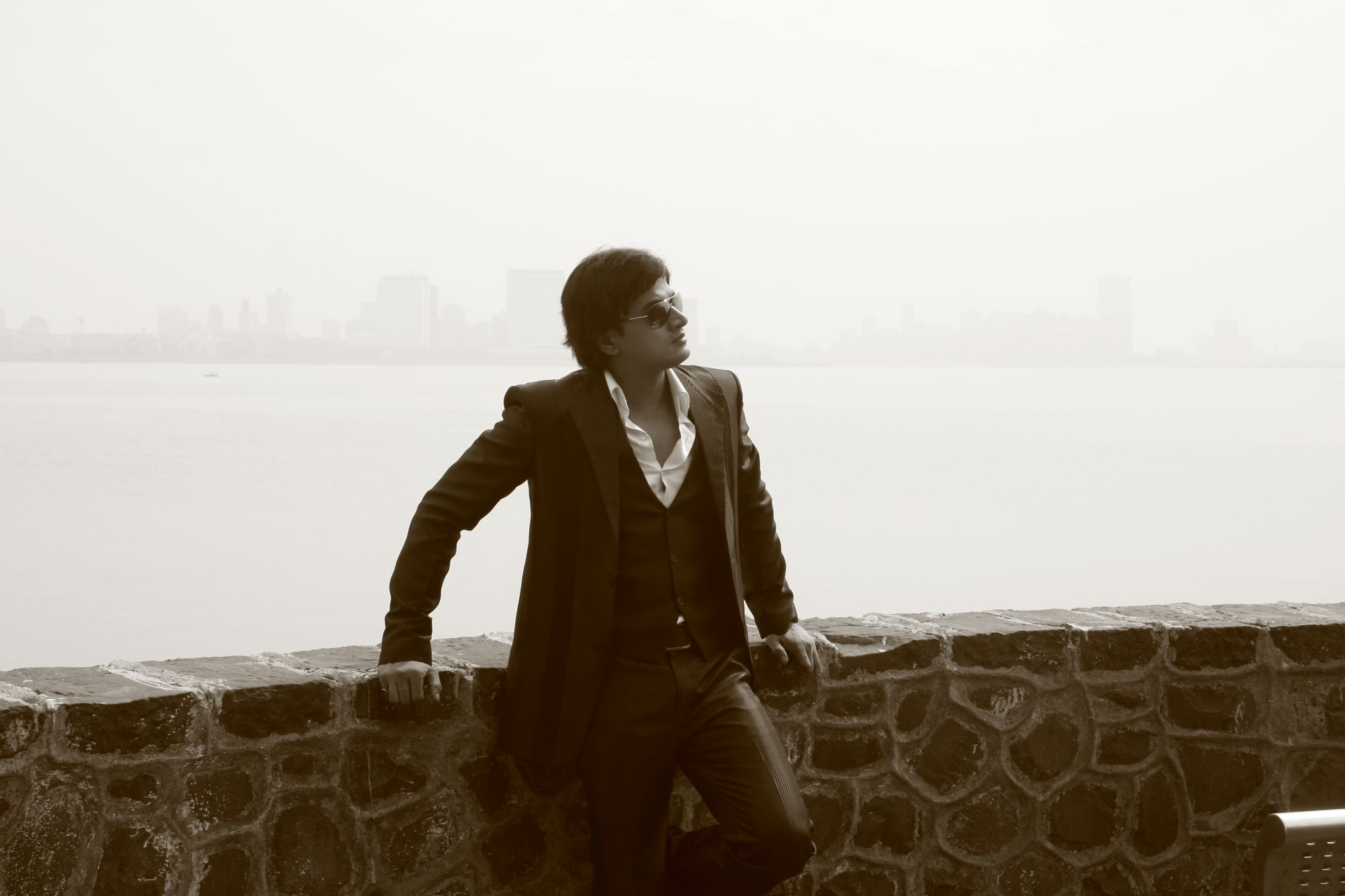 Akhil Rajendra in Mumbai at Napean Sea Road